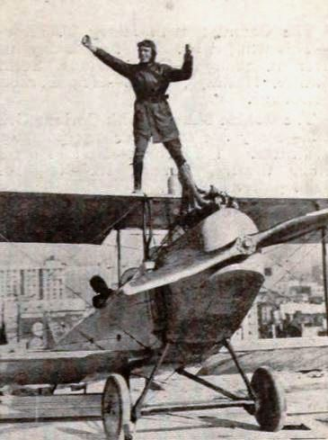 Stunt pilot Frank Clarke (1898 – 1948), on page 91 of the February 5, 1921 Exhibitors Herald. The caption states that Clarke jumped from a ten story building onto his biplane for the film Stranger Than Fiction (1921).